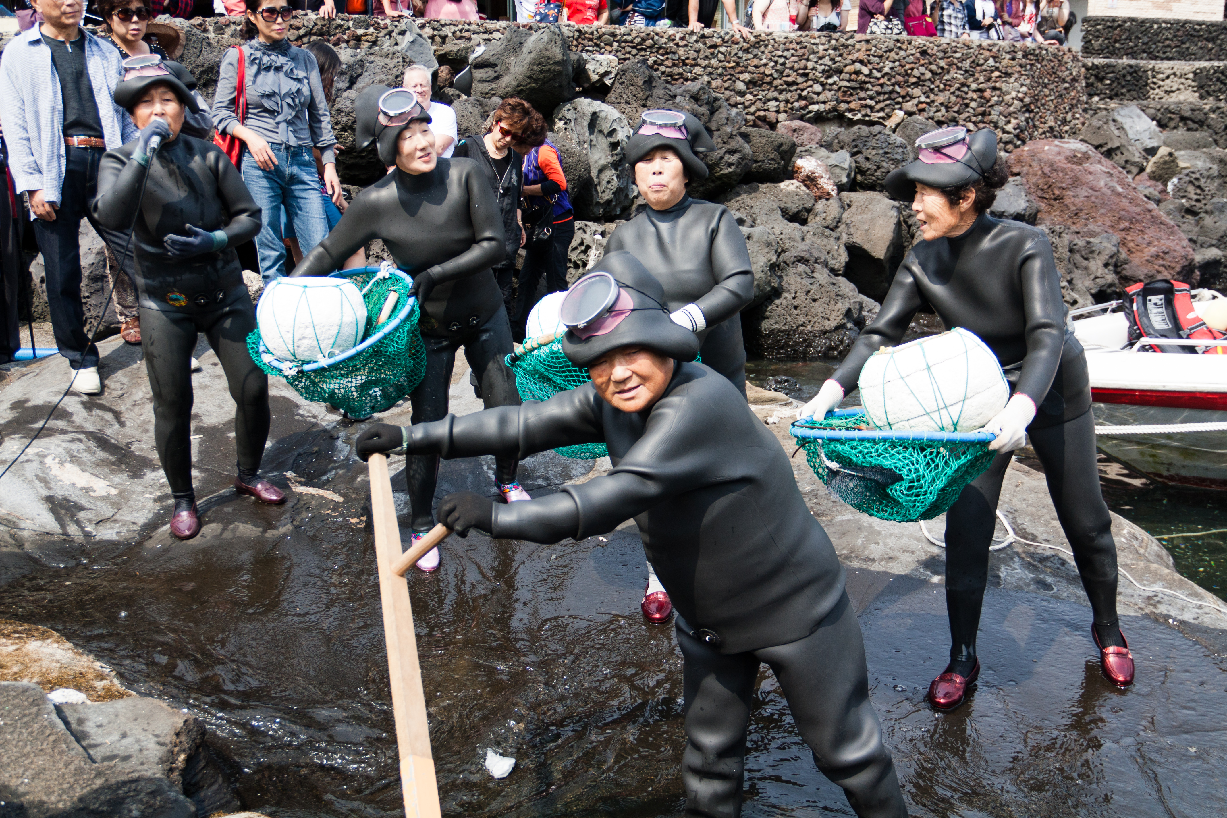 Hanyeo women, Jeju